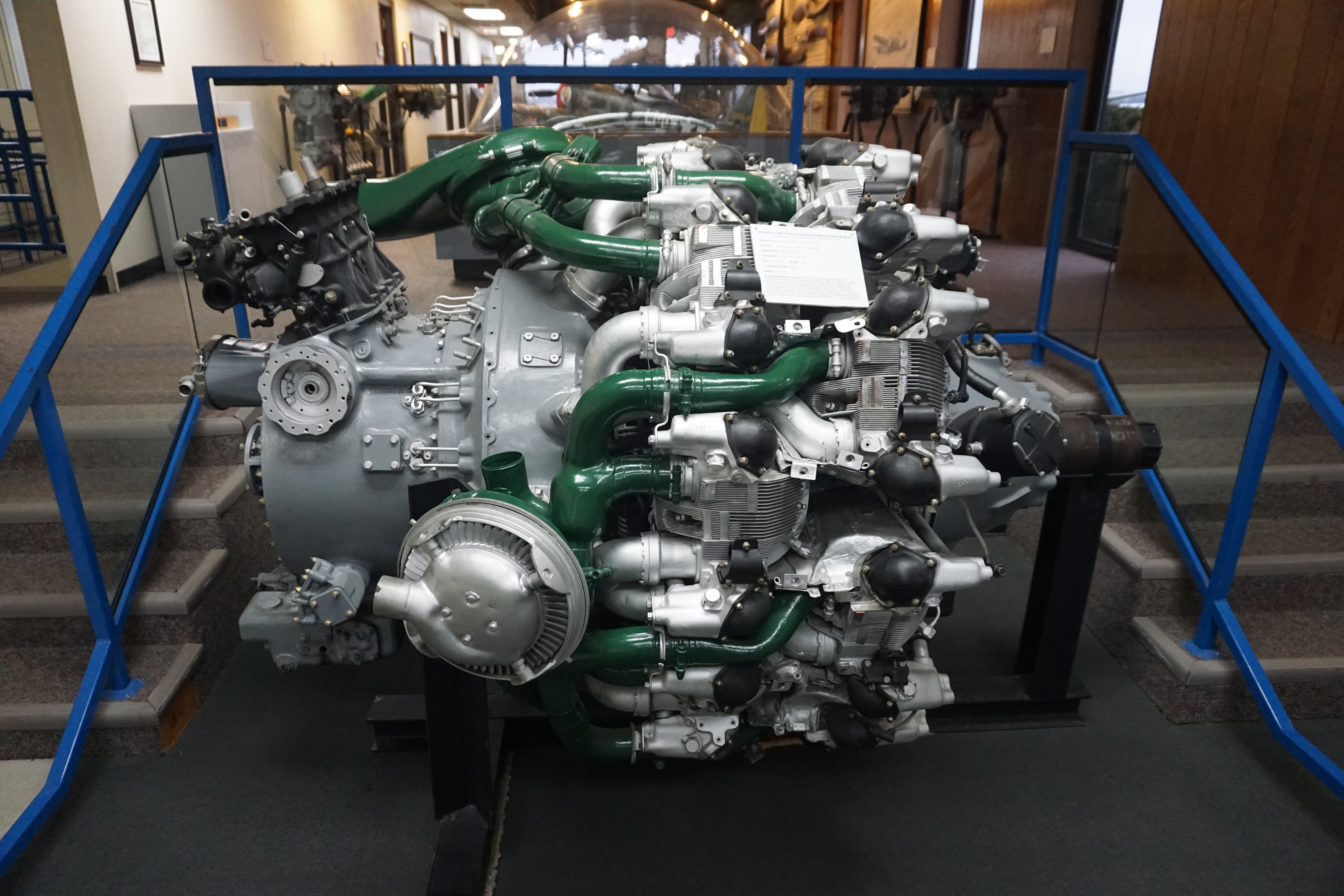 A Wright R-3350 Turbo-Compound Duplex Cyclone on display at the Air Zoo at Kalamazoo/Battle Creek International Airport in Portage, Michigan (United States).